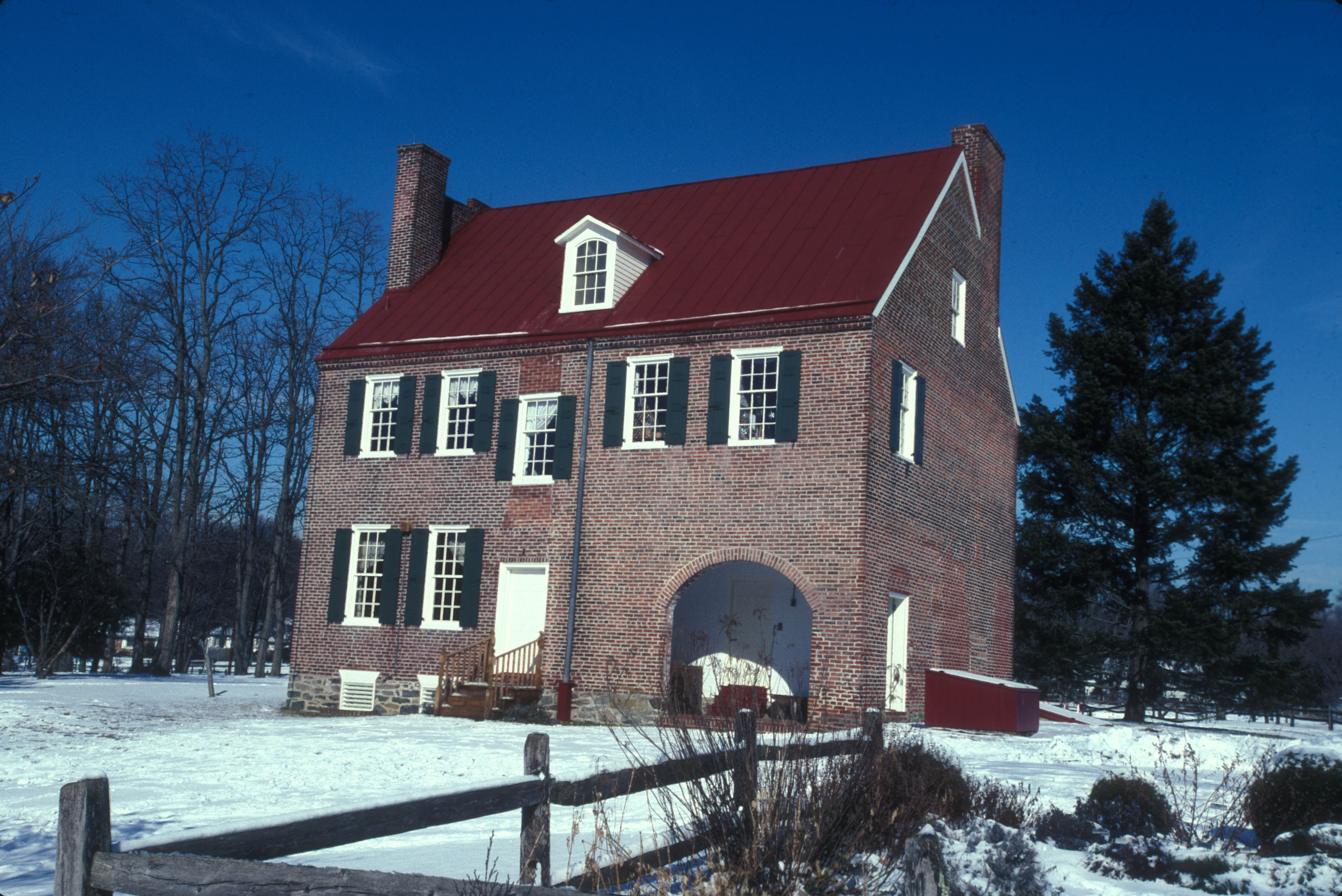 HOUSE WAS BUILT OF FLEMISH BOND SOMETIME IN THE EARLY 19TH C BY JOSEPH THORNE, A QUAKER. HE LOST THE HOUSE BECAUSE OF DEBTS AND IT PASSED INTO THE COOPER FAMILY, ONE OF WHOM MARRIED A BARCLAY AND ACQUIRED THE FARM